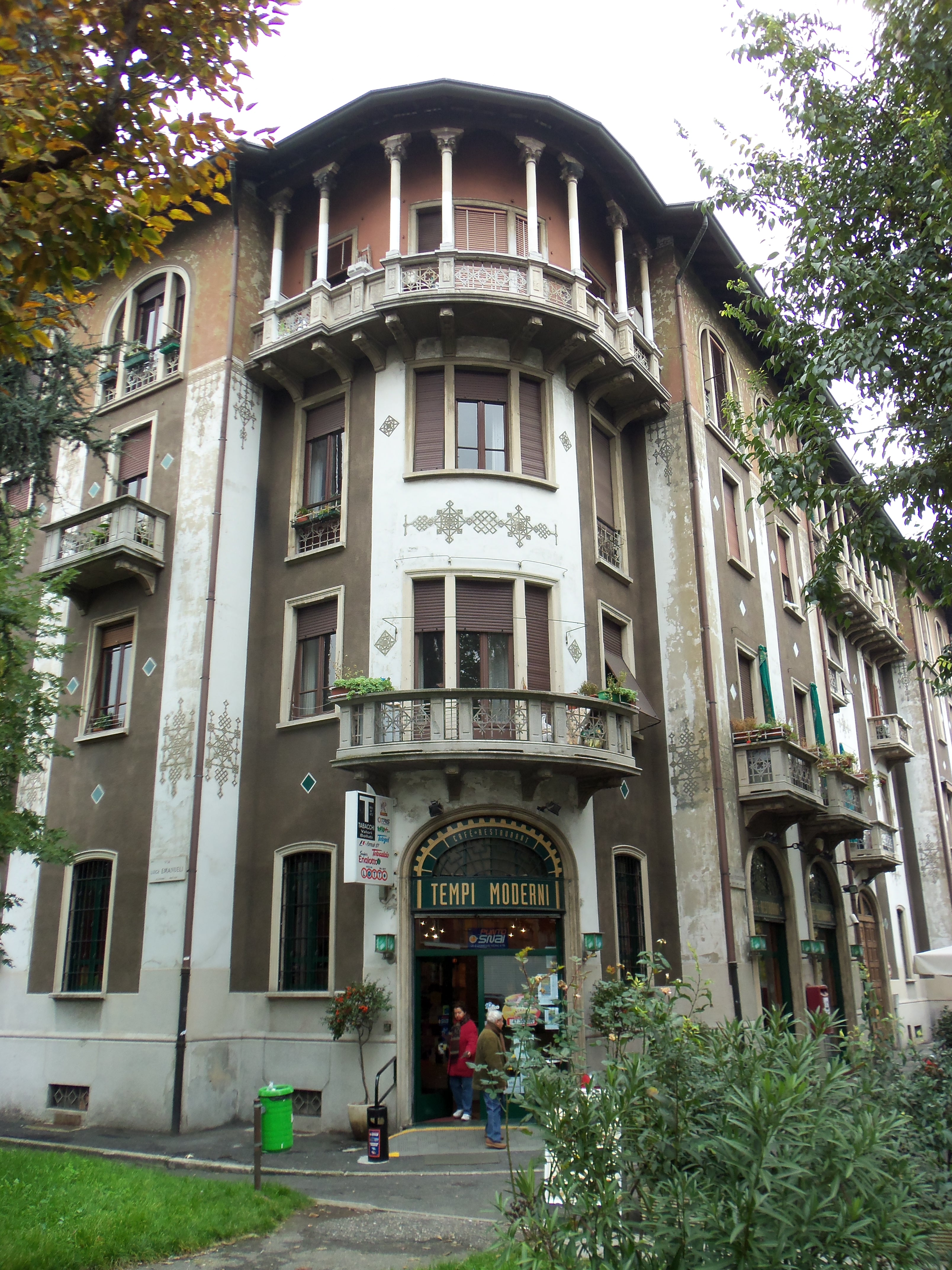 Milan, the liberty house of services in Borgo Pirelli (1920)